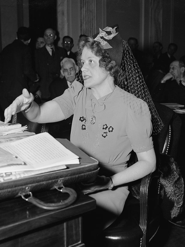 Photograph of Elizabeth Dilling (1894-1966); cropped by uploader.